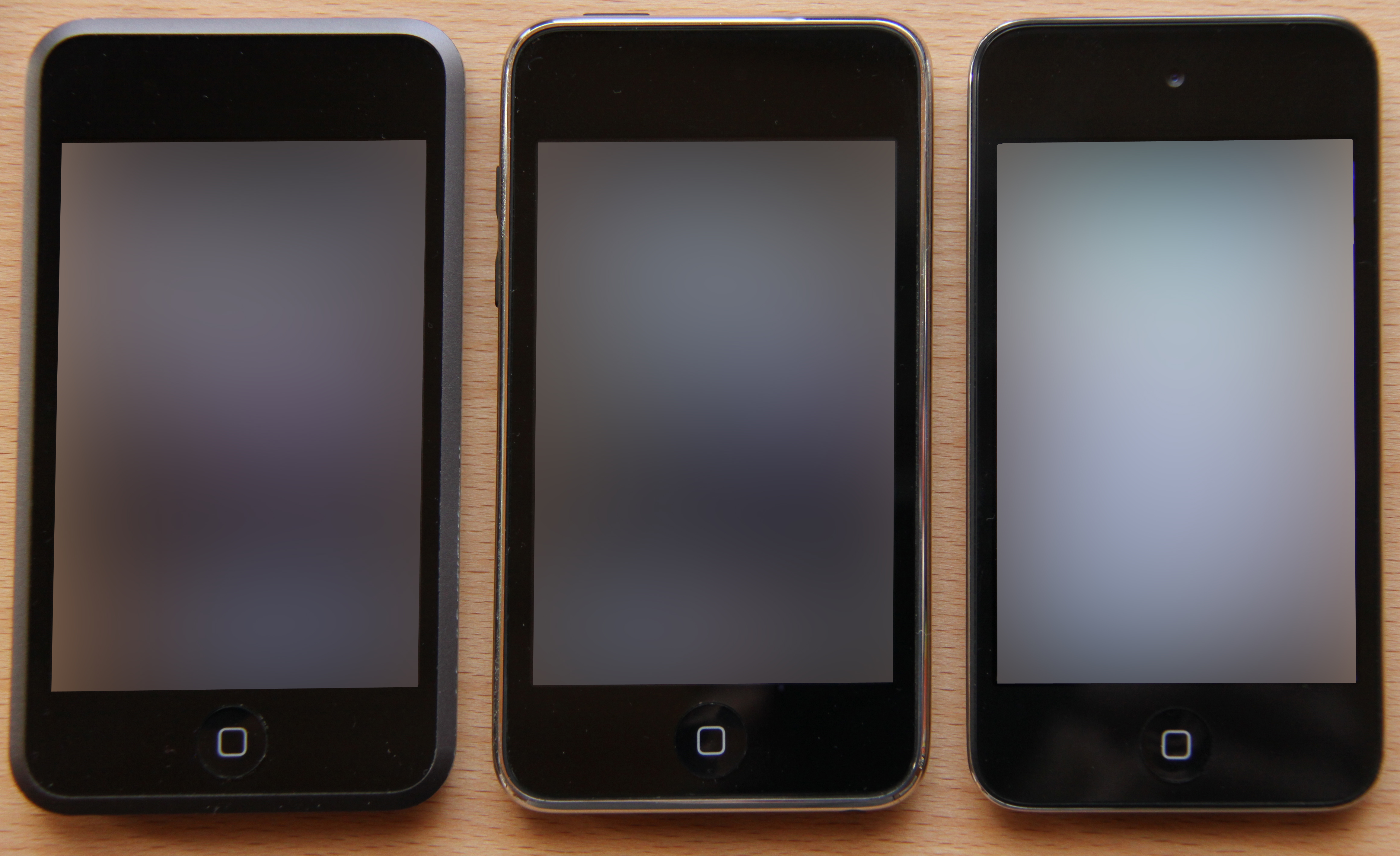 Comparison of the 4 current iPod touch generations. left: 1G, center: 2G/3G, right: 4G